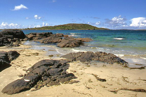 Beach at Eyrephort View across to Inishturk.